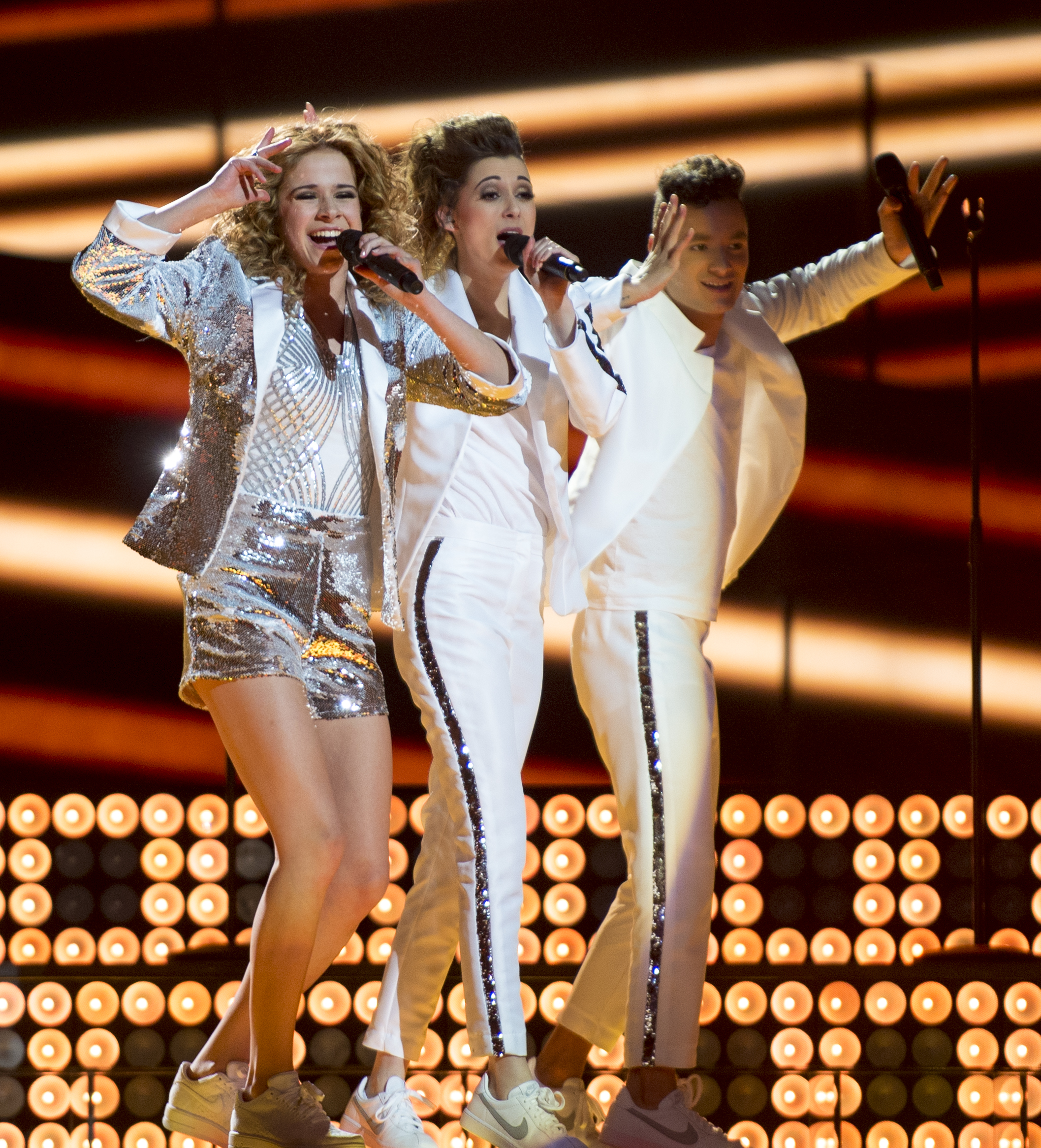 Laura Tesoro representing Belgium with the song "What's The Pressure" during a rehearsal before the second semi final of the Eurovision Song Contest 2016 in Stockholm. (Help translate this text)